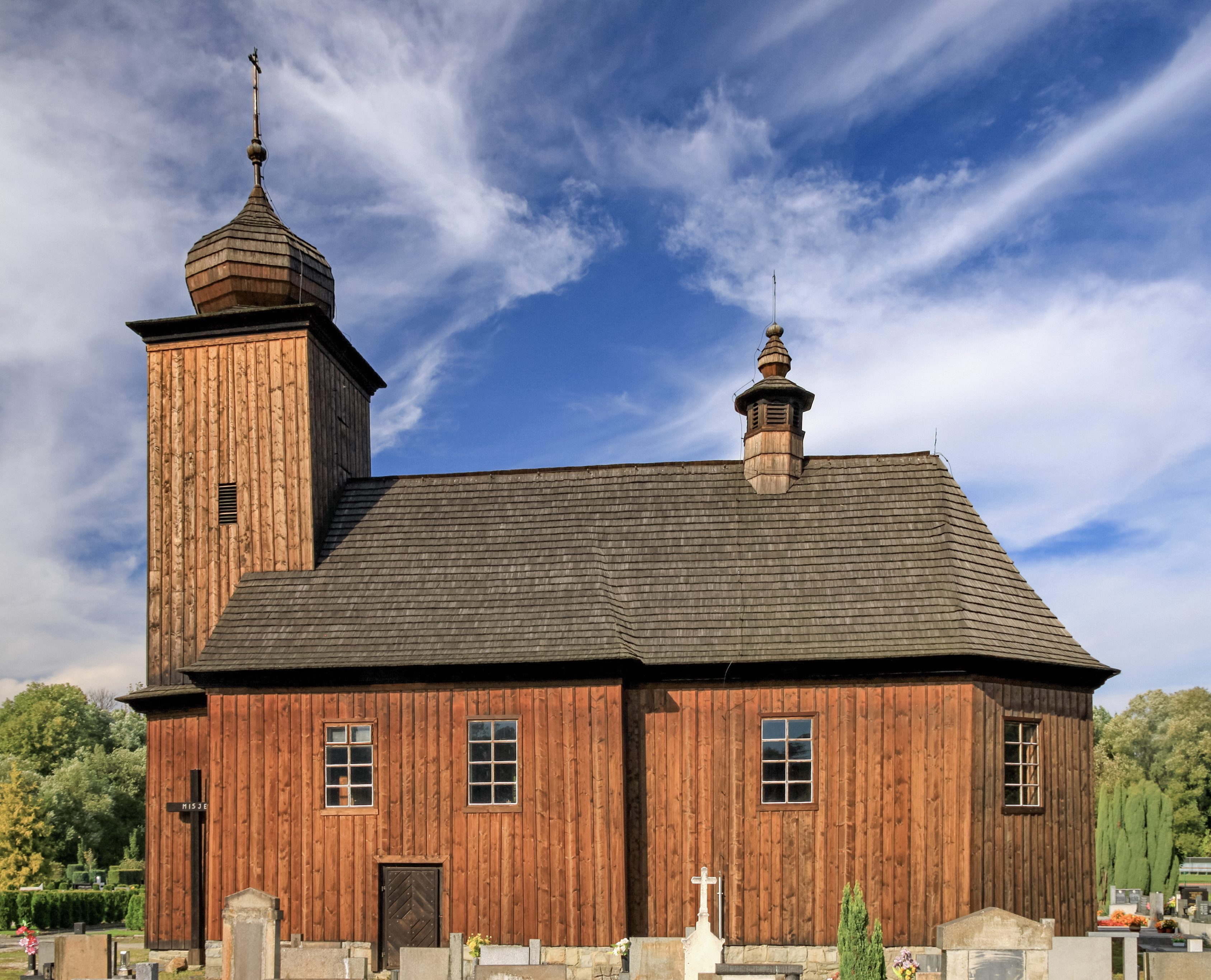 Church of Saints Peter and Paul. Albrechtice, Moravian-Silesian Region, Czech Republic.